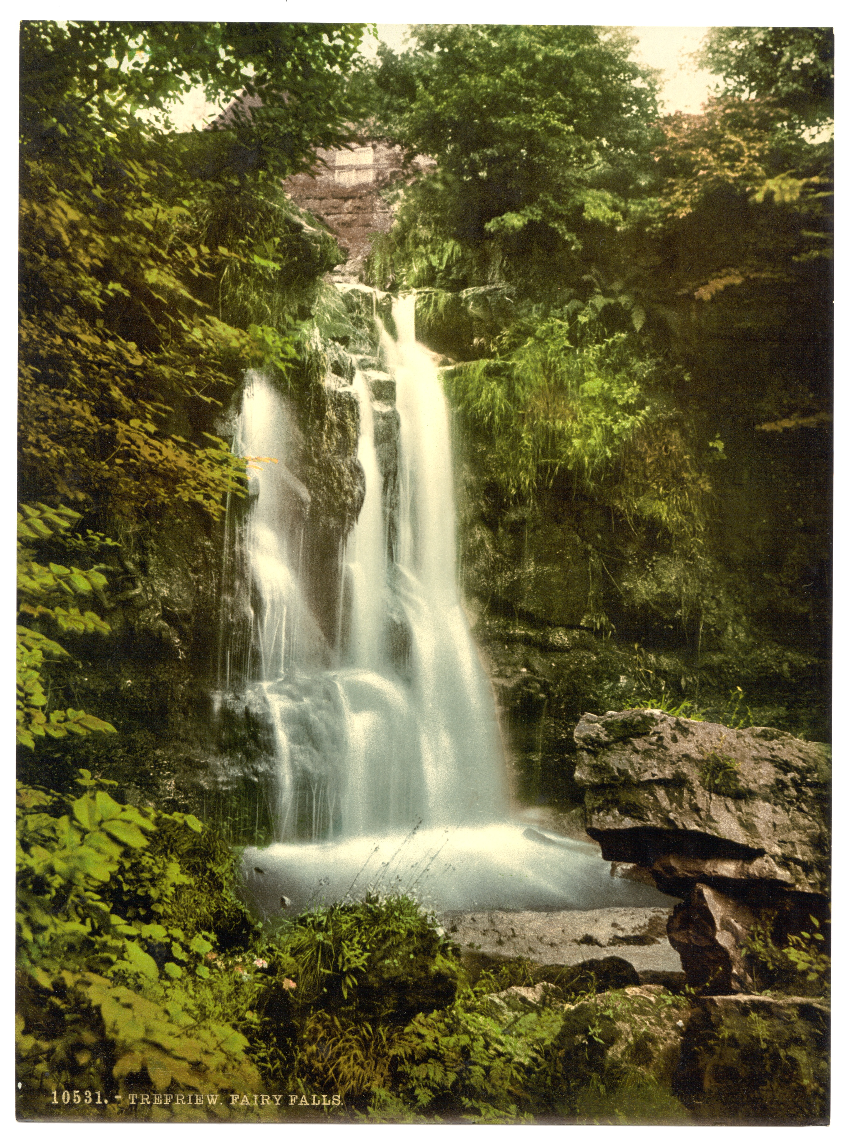 Print no. "10531".; Title from the Detroit Publishing Co., catalogue J-foreign section. Detroit, Mich. : Detroit Photographic Company, 1905.; More information about the Photochrom Print Collection is available at Forms part of: Views of landscape and architecture in Wales in the Photochrom print collection.